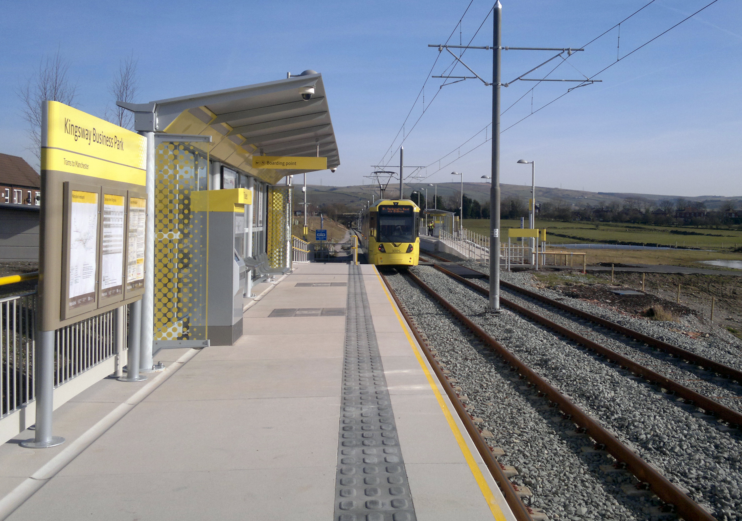 Kingsway Business Park Metrolink station, a stop on Greater Manchester's light-rail Metrolink system. Located in the Firgrove area of the Metropolitan Borough of Rochdale, it is seen here on 28 February 2013 - its opening day.